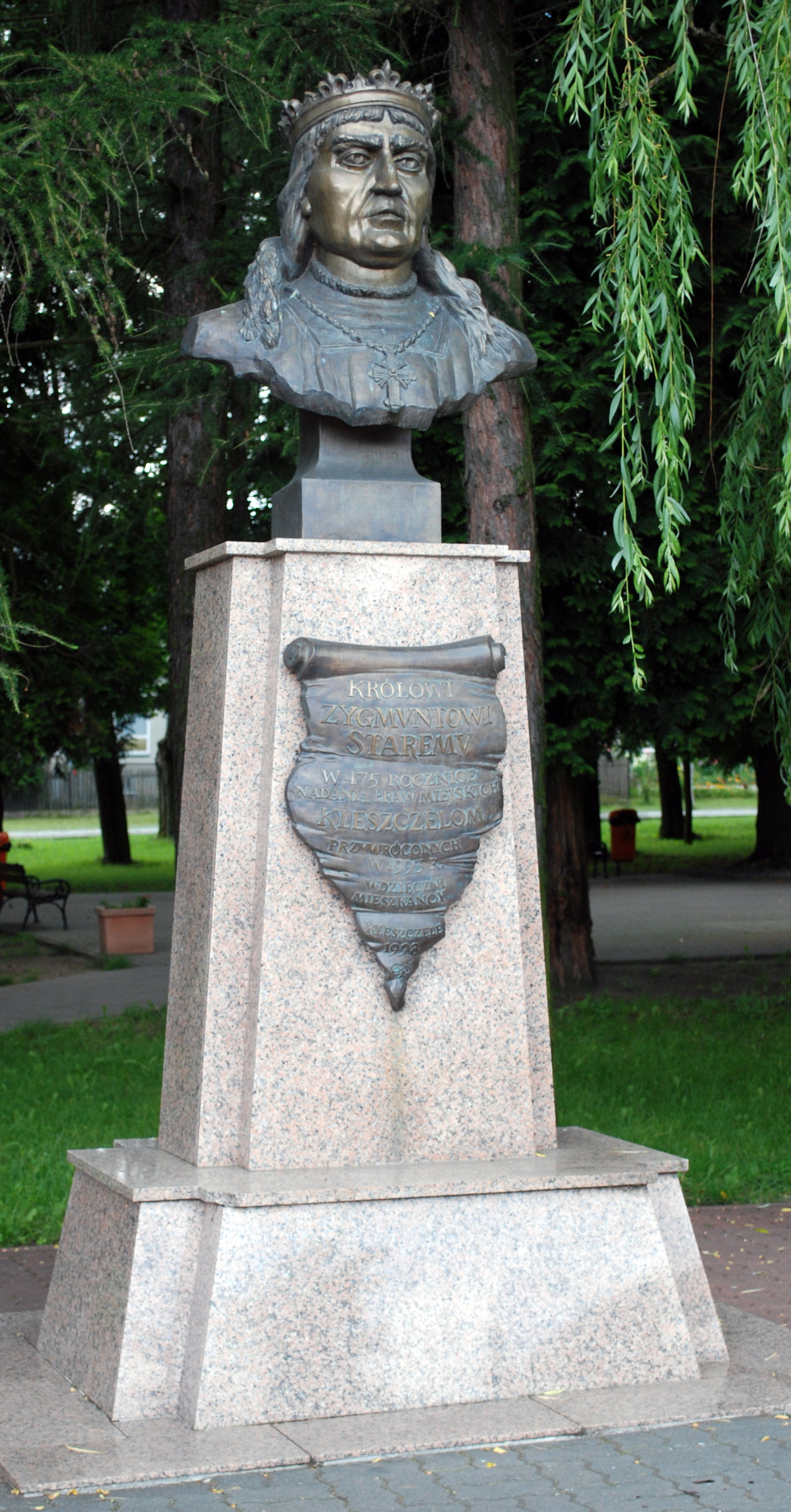 This photo from Podlaskie Voievodeship was taken during Polish Wikiexpedition 2009 set up by Wikimedia Polska Association. The making of this document was supported by Wikimedia Polska. Pomnik Zygmunta Starego w Kleszczelach